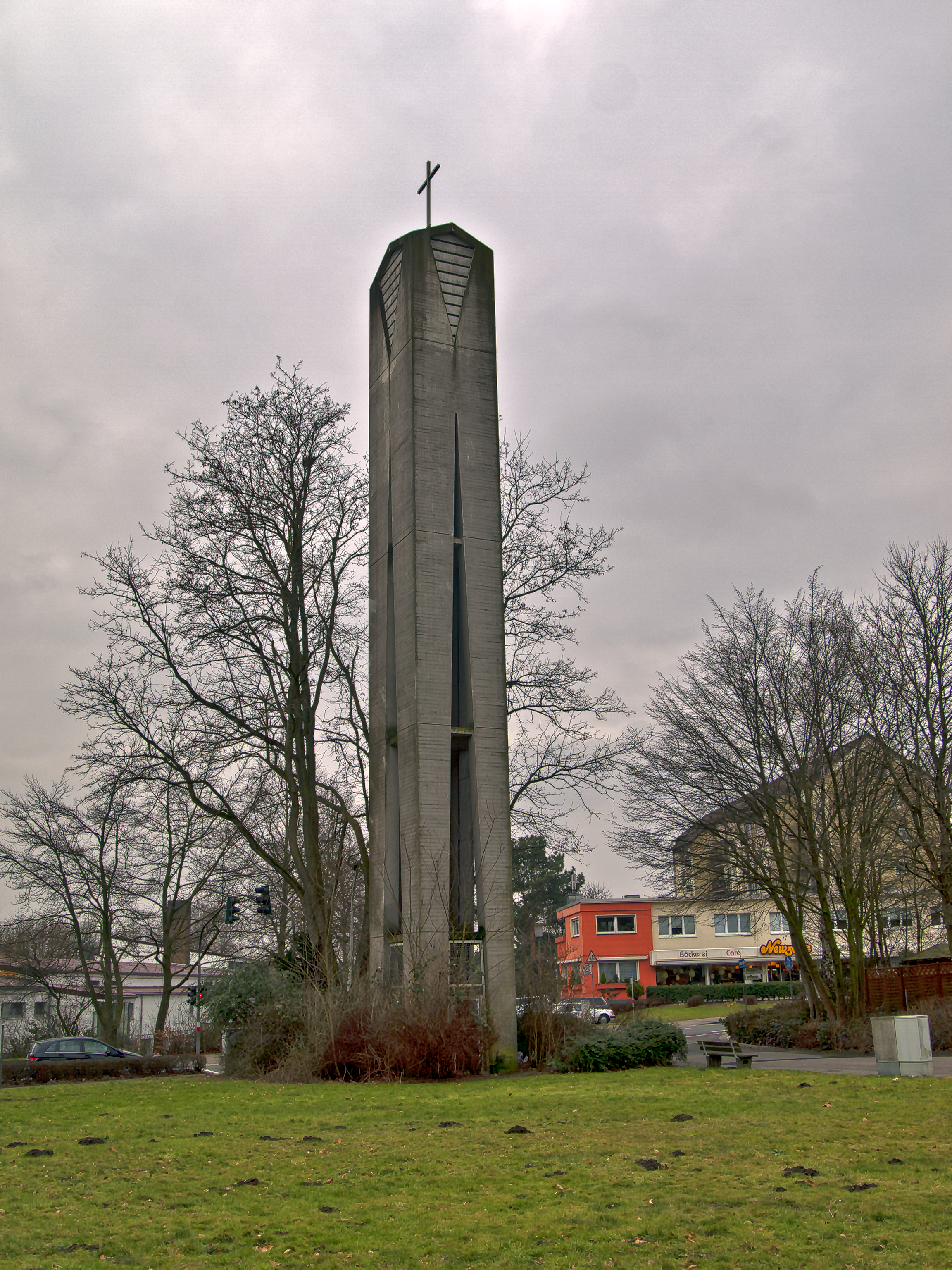 Leverkusen (Germany), detached belfry of the protestant church community center Alkenrath.